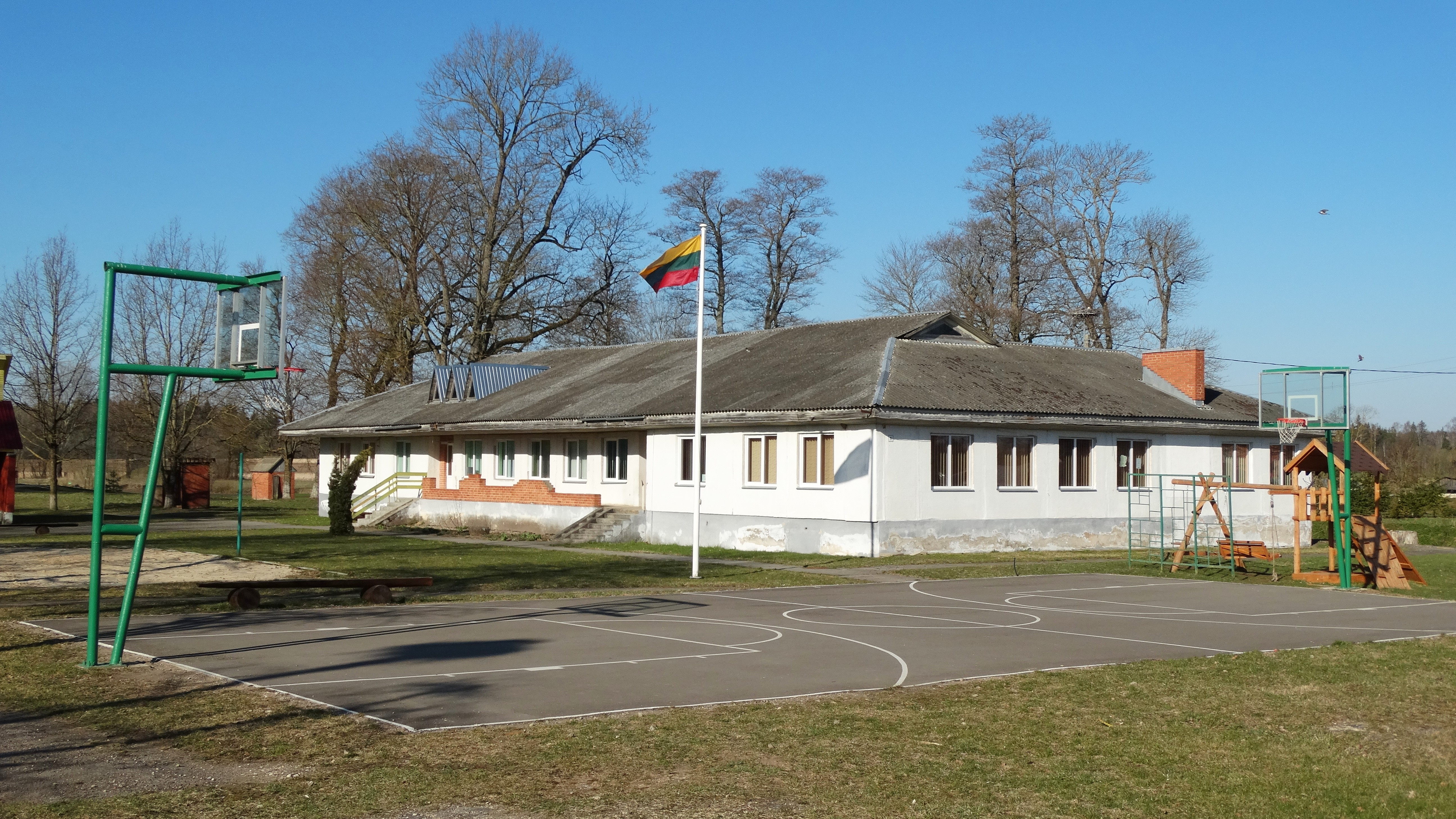 Daugėlaičiai, community house, Radviliškis district, Lithuania